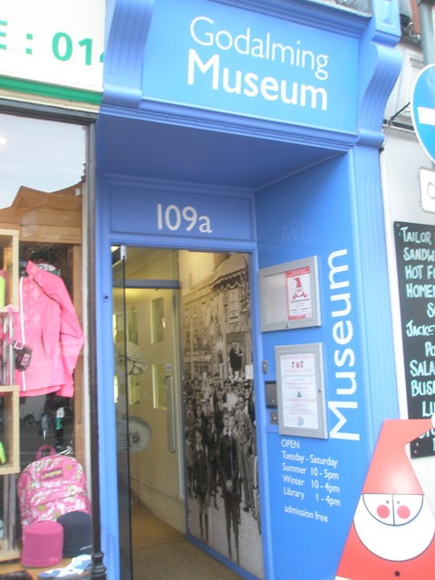 Entrance to Godalming Museum in the High Street